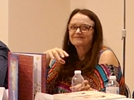 Nicole Lambert at Salon de la Biographie 2016, Chaville (France)